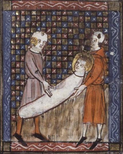 Martyrdom of Saint Vitalis of Milan (Martyre de saint Vital), BnF Français 185, fol. 230r